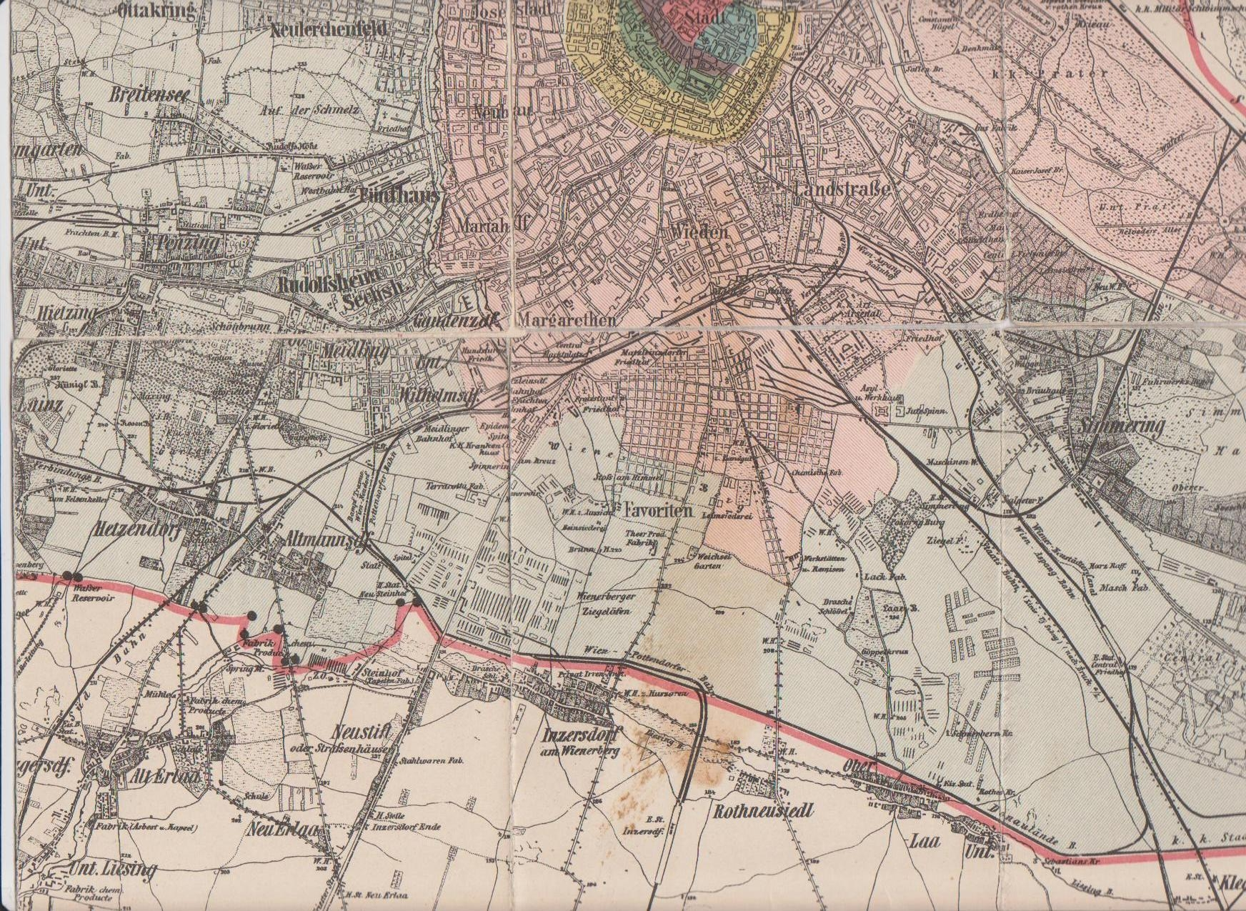 Part of a map showing the development of the City of Vienna (southern part) from the Middle Ages till 1892, when the districts 11 to 19 were created by incorporating suburbs. Published by the Municipality of Vienna.